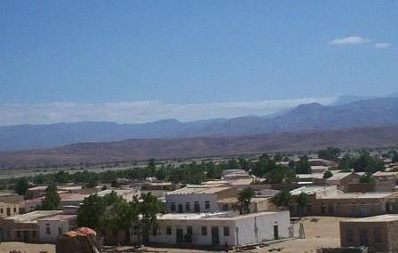 View of neighborhood in Laasqoray, Somalia.